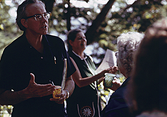 Walter Heller, Chairman of the White House Council of Economic Advisers